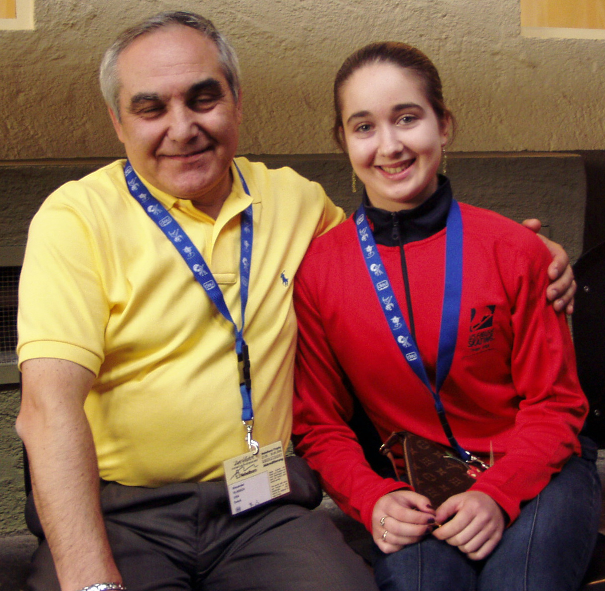 Julia and Alexander Vlassov at the Nebelhorntrophy in Oberstdorf Germany on September 30th, 2006. taken with their kind permission